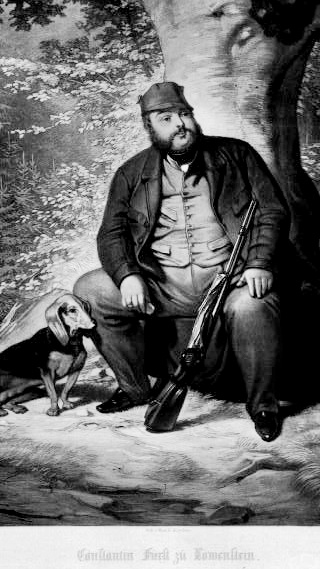 General Konstantin zu Löwenstein-Wertheim-Rosenberg (1786-1844)